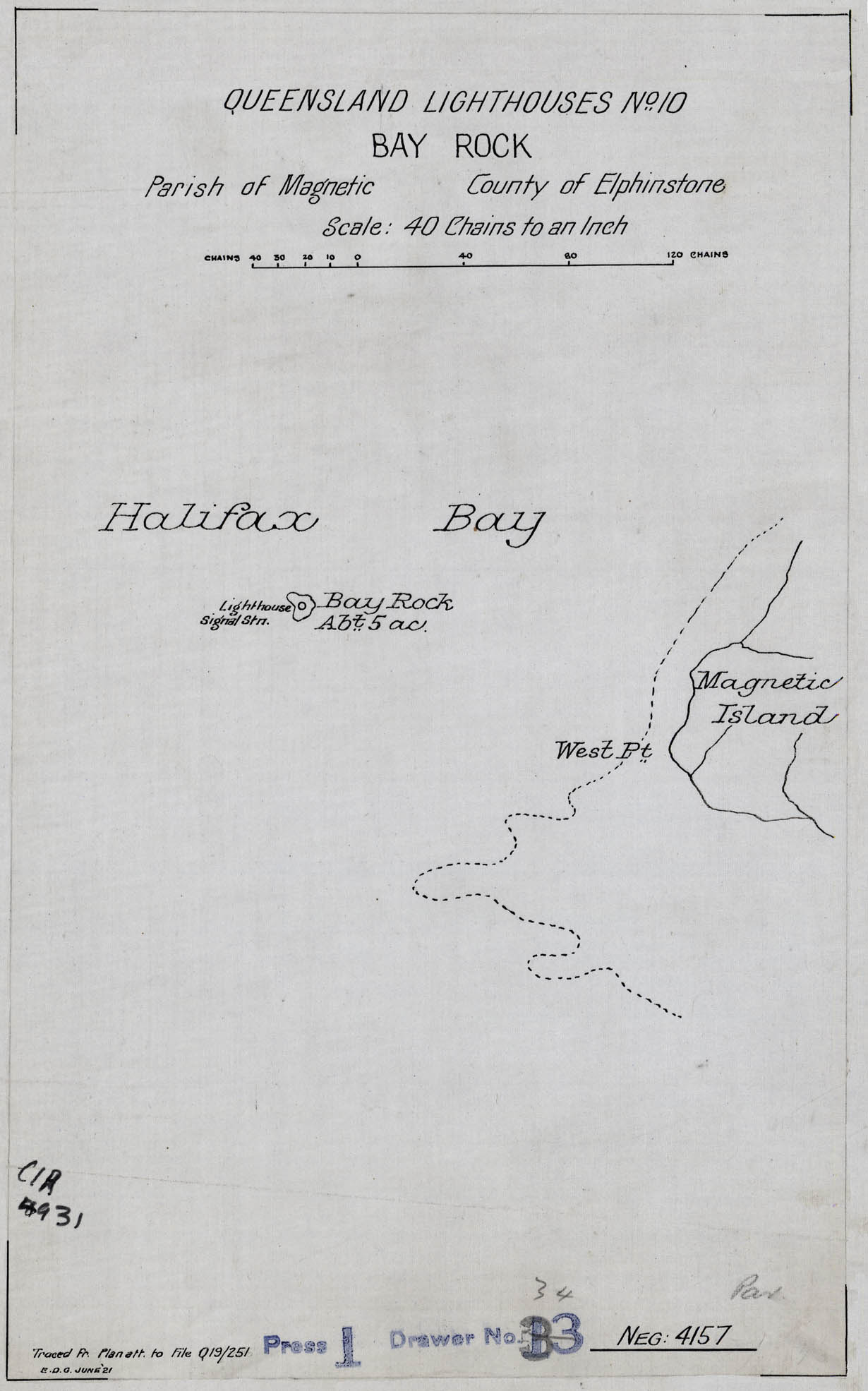 Bay Rock Lighthouse [QLD Lighthouses No. 10] - Plan, Parish of Magnetic, County of Elphinstone (1921)